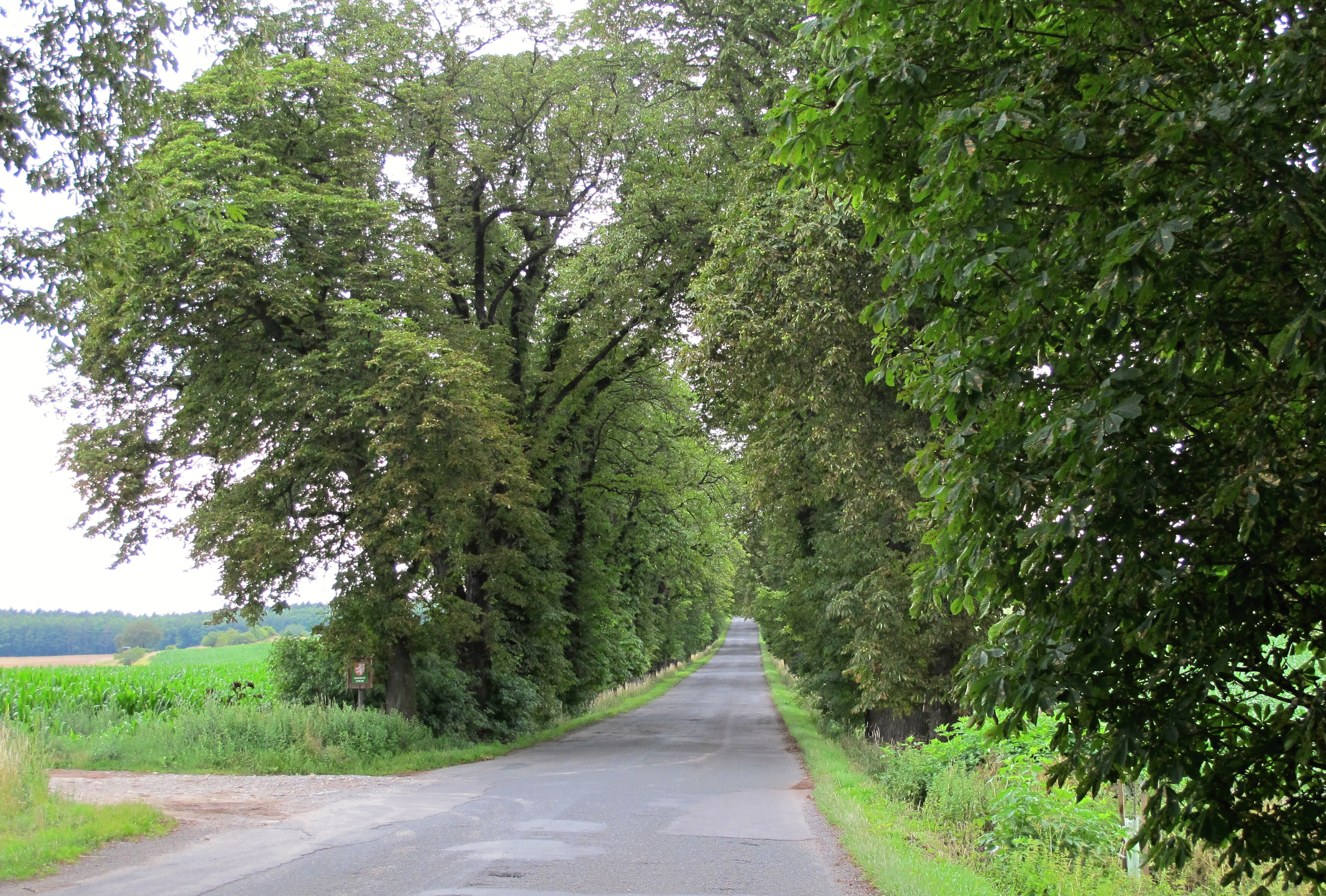 Famous trees (Aesculus hippocastanum) along road between Nečín and Bělohrad; Příbram District in Czech Republic